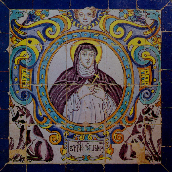 Santa Inés de Montepulciano, plafón cerámico de autor anónimo, del círculo de Hernando de Valladares. Segundo tercio del S. XVII. Museo de Bellas Artes. Sevilla.